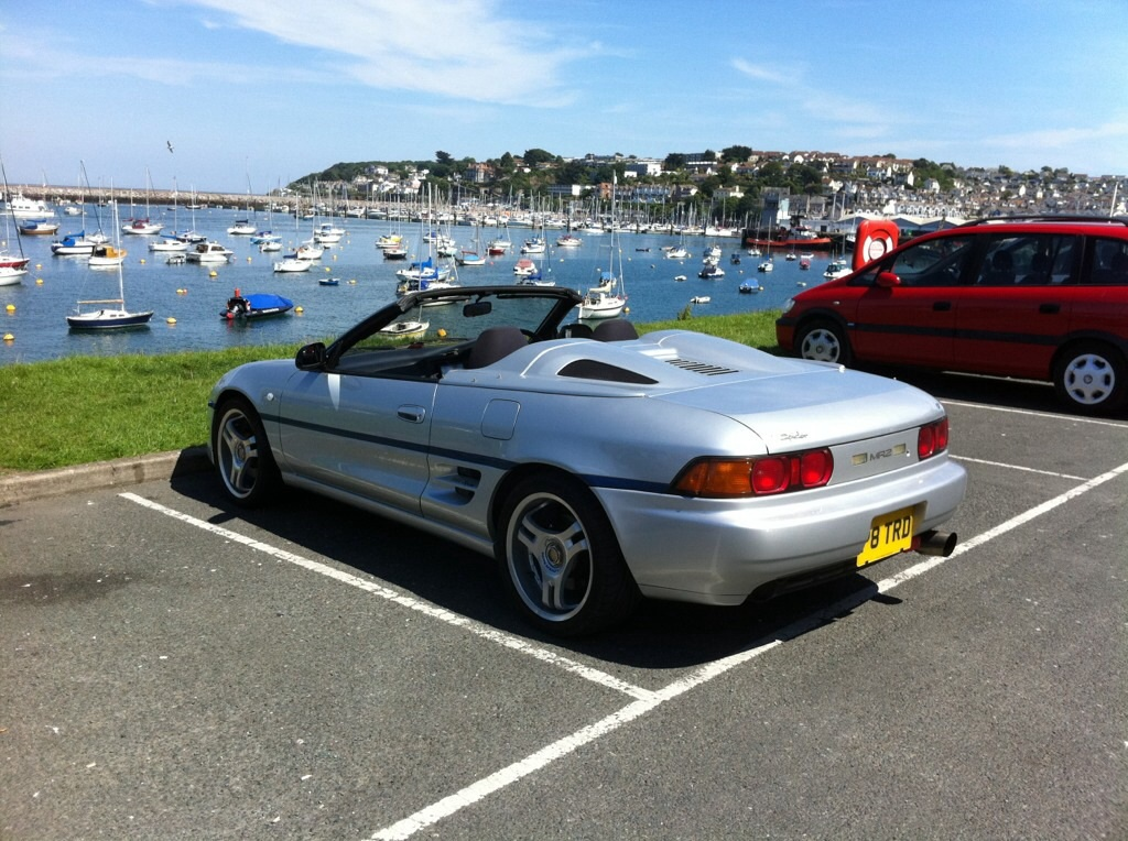 sw 20 spider 1